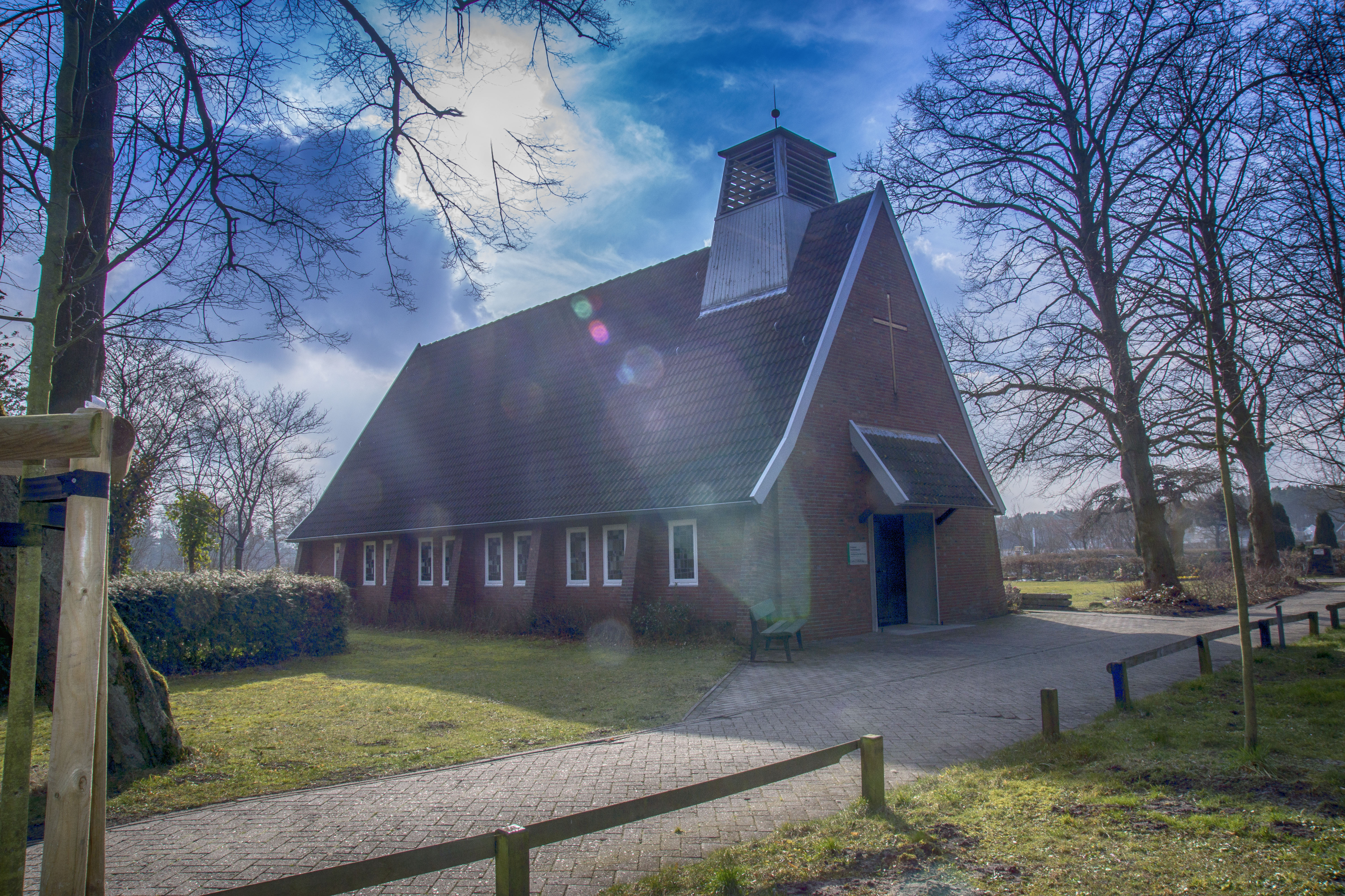 A part of Adelheidsdorf